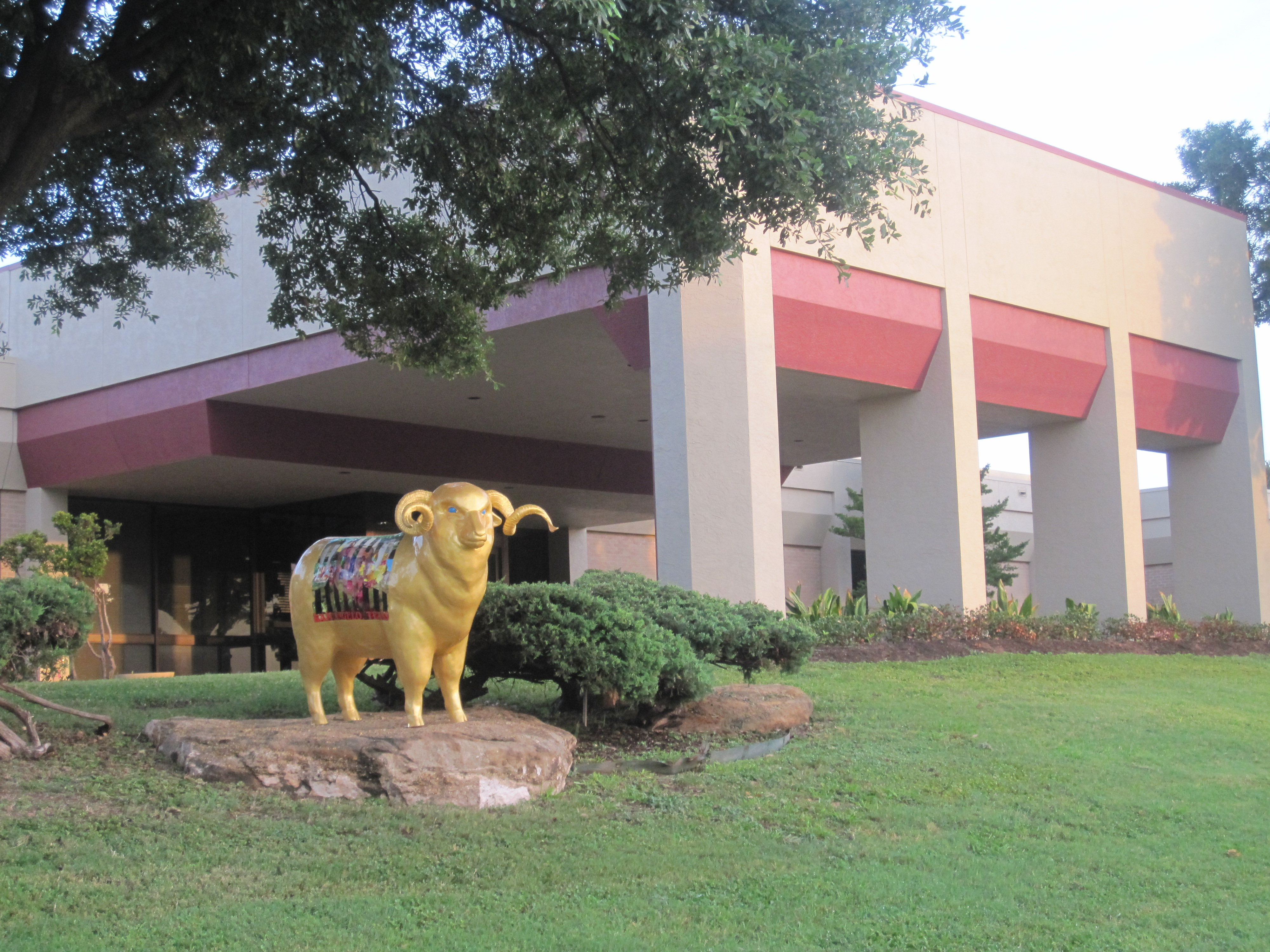 I took photo in San Angelo with Canon camera.